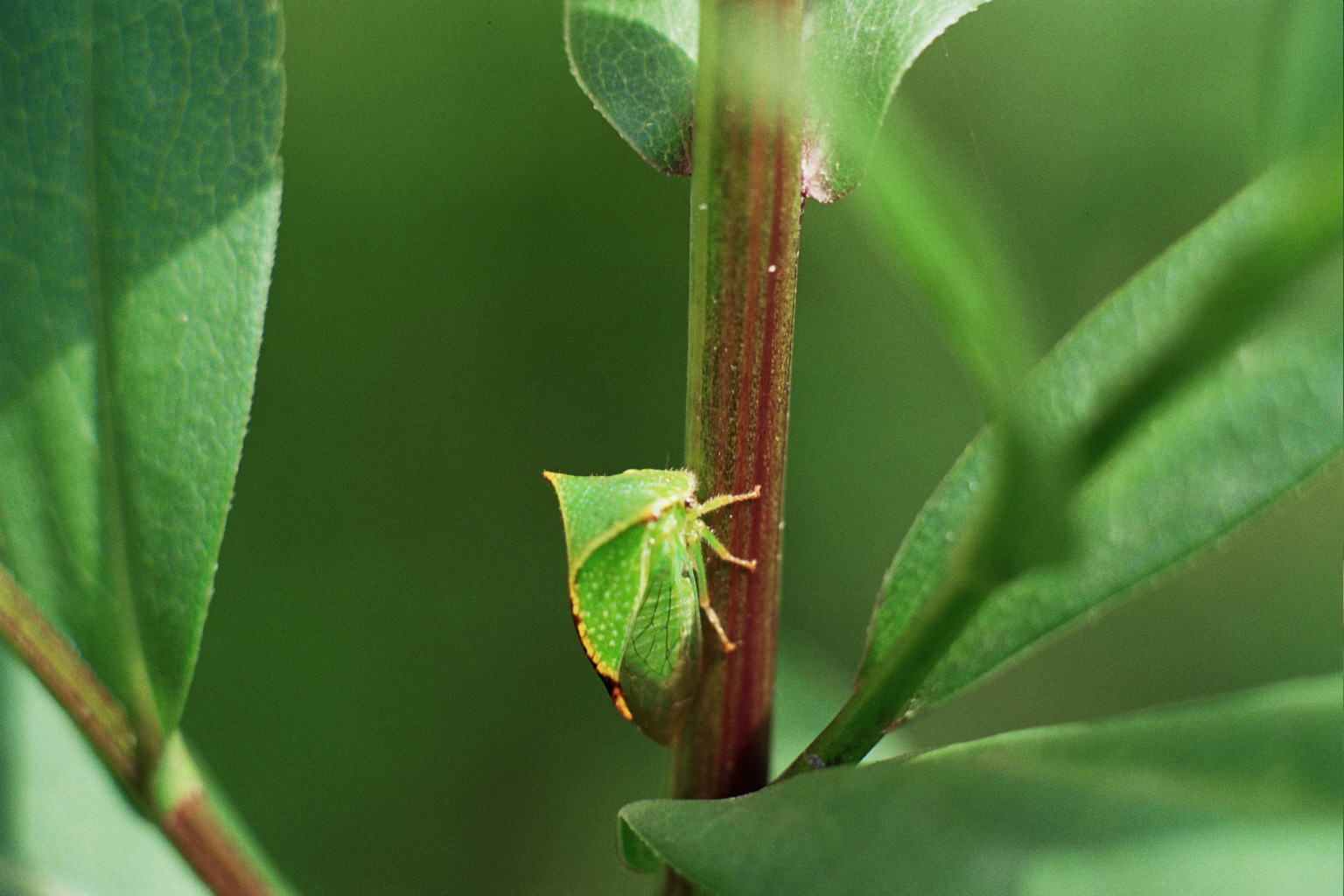 Stictocephala bisonia